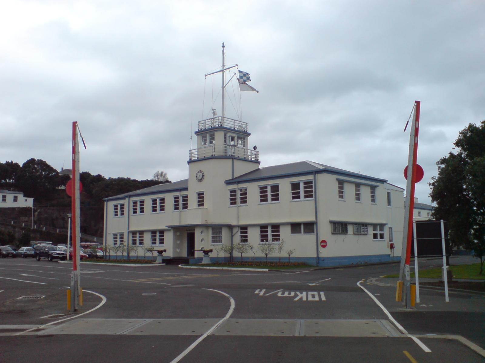 The (as far as I am aware) command building of the Devonport Naval Base, in the Devonport, Auckland, New Zealand. Looking northeast.